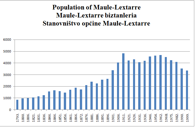 Demography of Maule Lextarre (1793. -1999.)